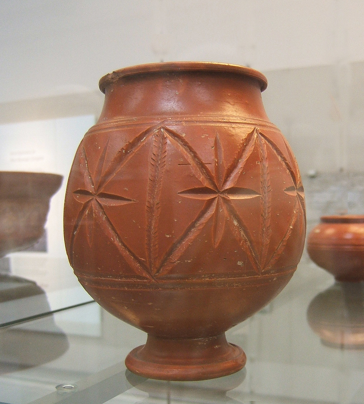 Central Gaulish samian ware vessel with 'cut-glass' decoration. Late 2nd century AD. Ht. 15 cm. British Museum, London. GR 1904.2-4.769